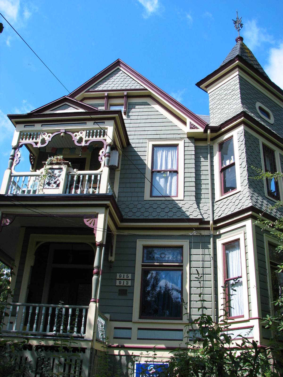 The historic Thaddeus Fisher House (built ca. 1888), located at 913–915 Southeast 33rd Avenue in Portland, Oregon, United States, is listed on the US National Register of Historic Places.